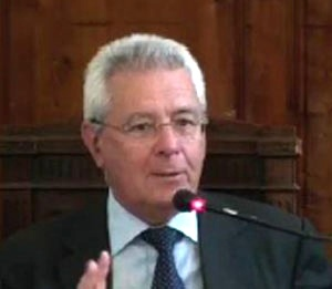 Scoca Franco Gaetano, accademico